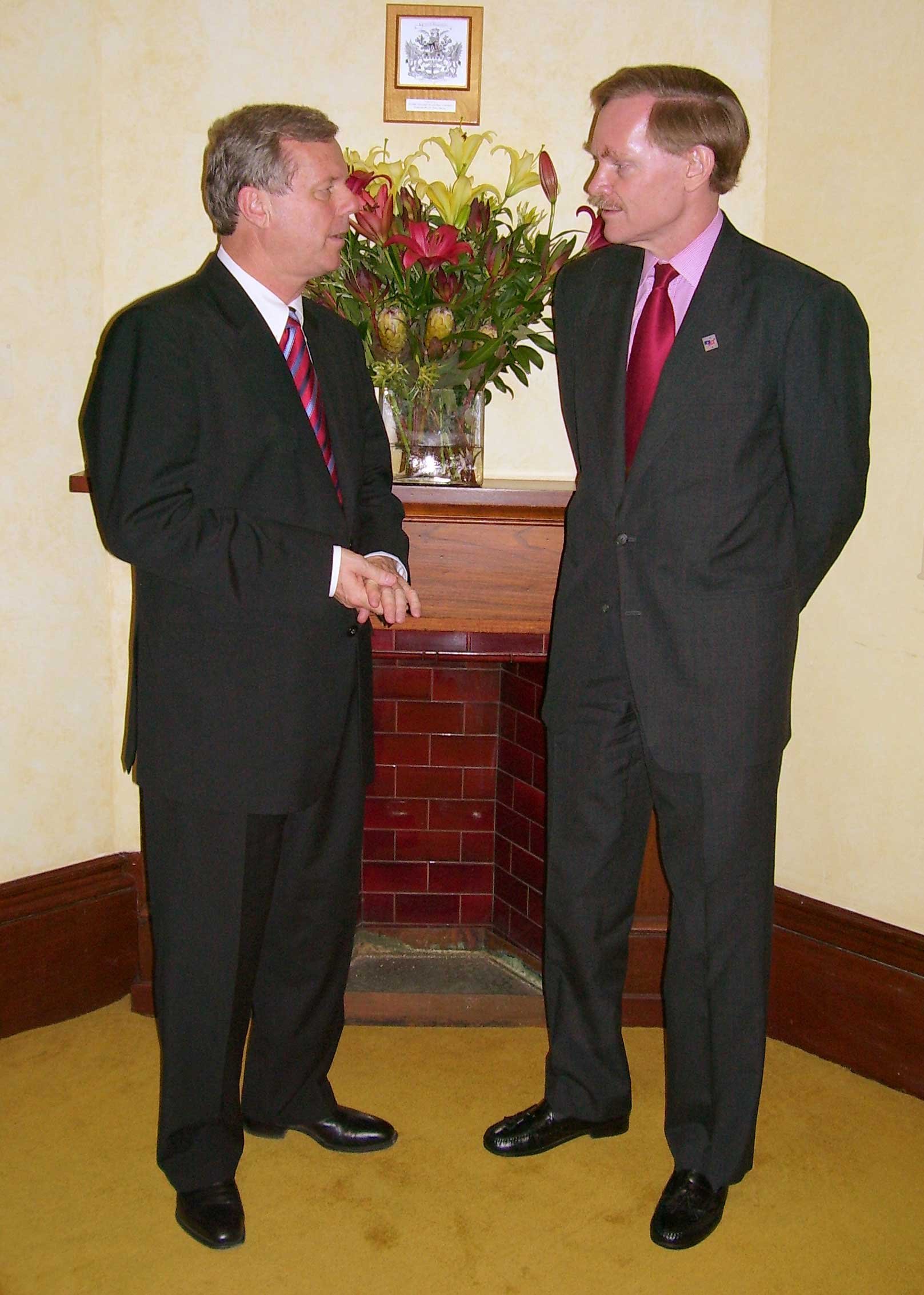 Caption: Premier Mike Rann with Deputy Secretary Zoellick Date: November 2005